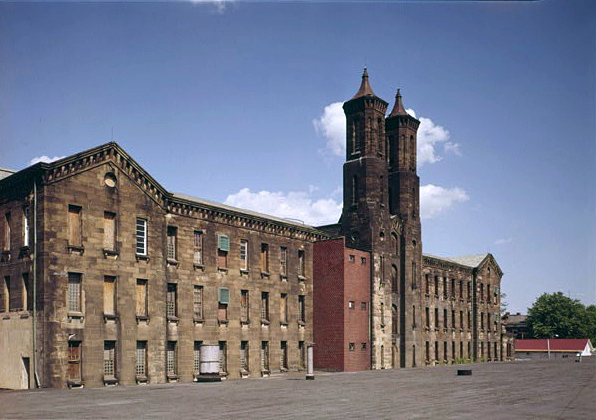 This is a photo of the Cannelton Cotton Mill in Cannelton taken in 1981 by Jack E. Boucher for the Historic American Engineering Record. It is one of four color transparencies that supplement 42 black and white images made by Boucher of the mill in 1974.